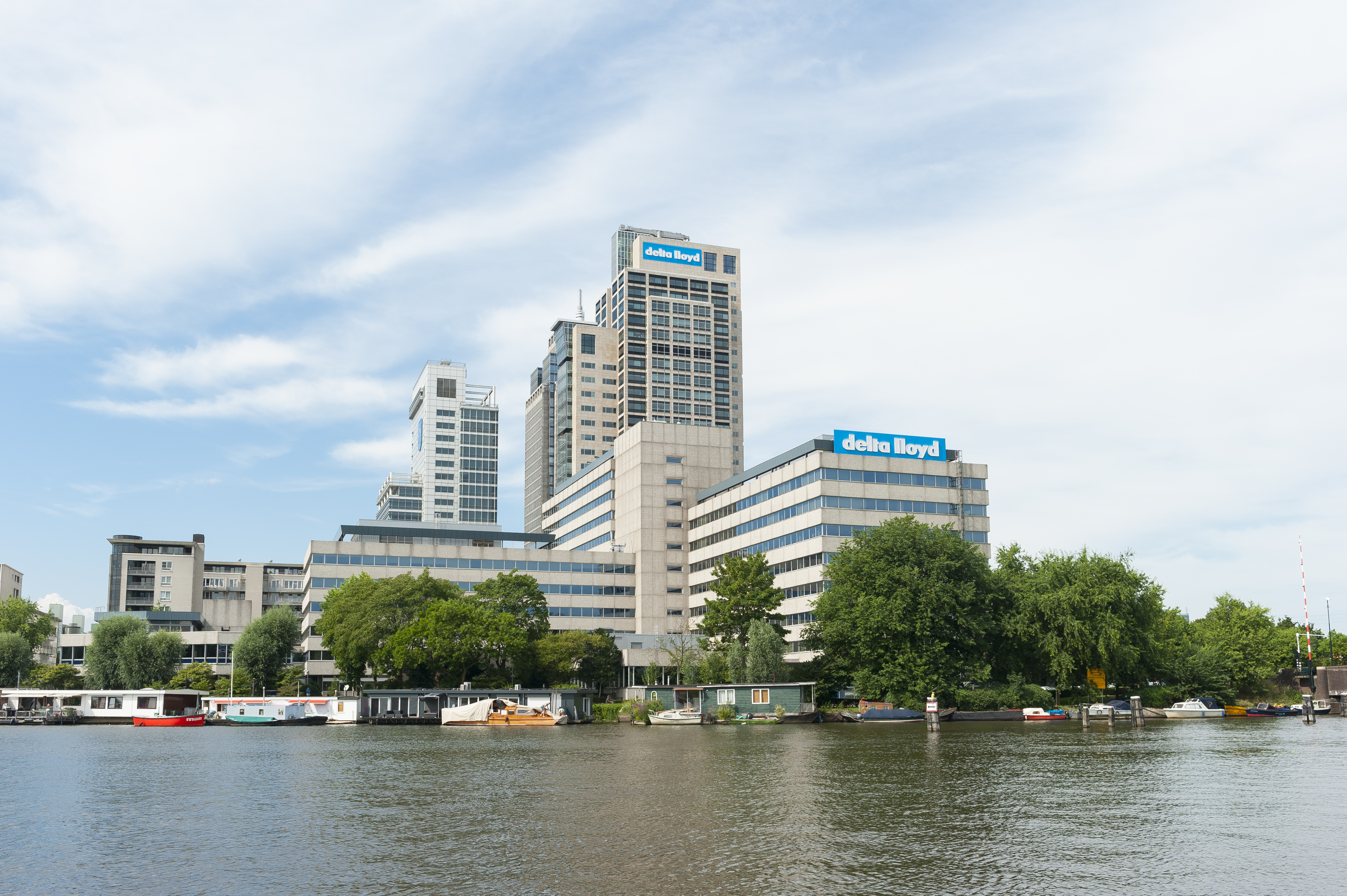 Delta Lloyd kantoren aan de Amstel. Met op de achtergrond de Mondriaan toren en het Toorop gebouw in Amsterdam.